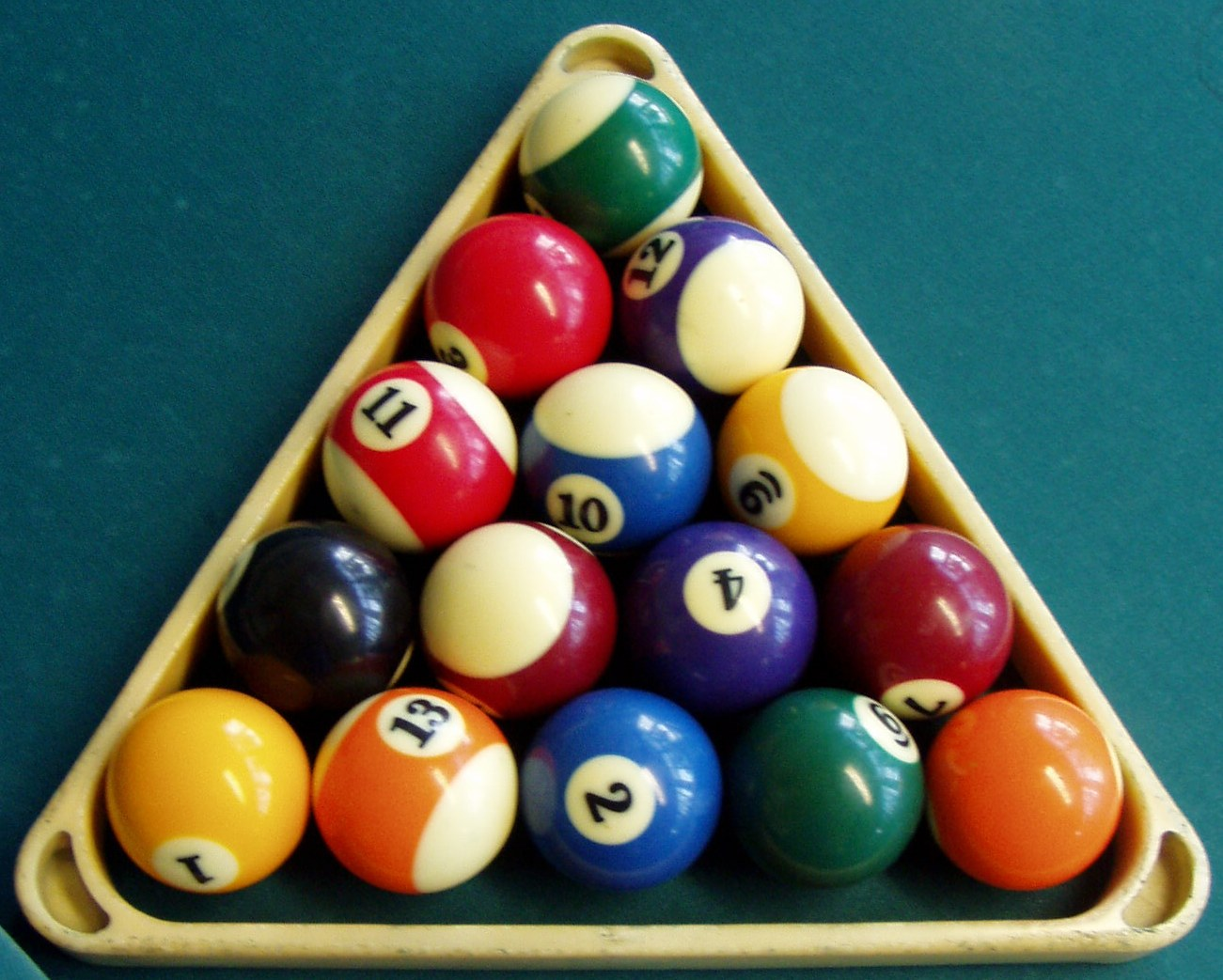 Random rack for poolbillard (e.g. for Straight Pool)